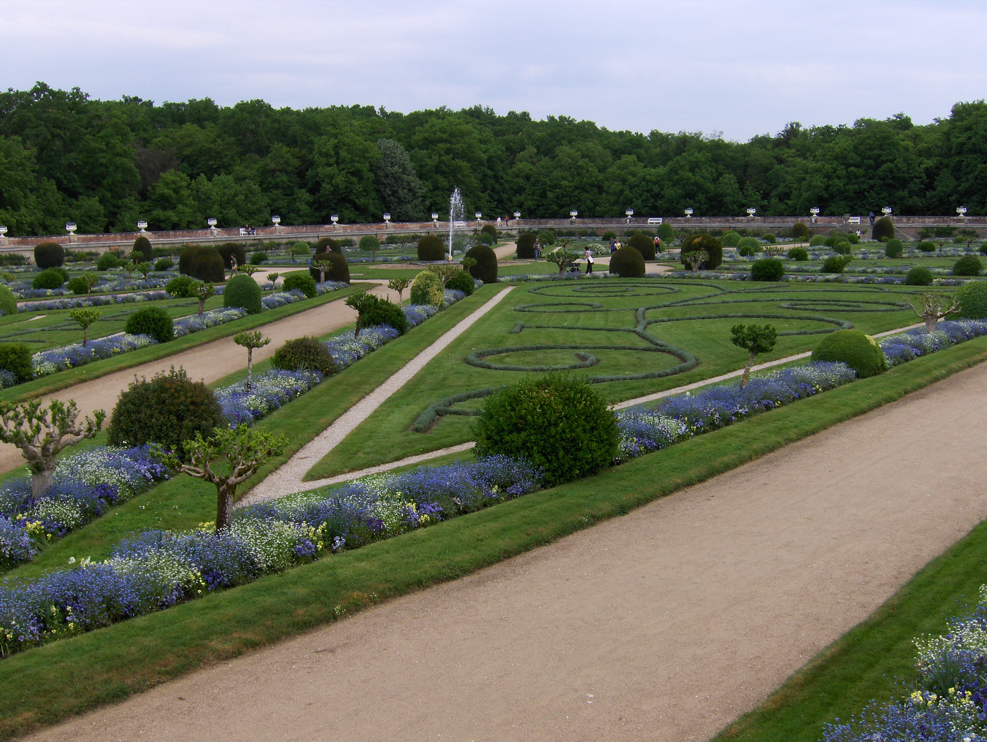 Château de Chenonceau, the garden of Diane de Poitiers